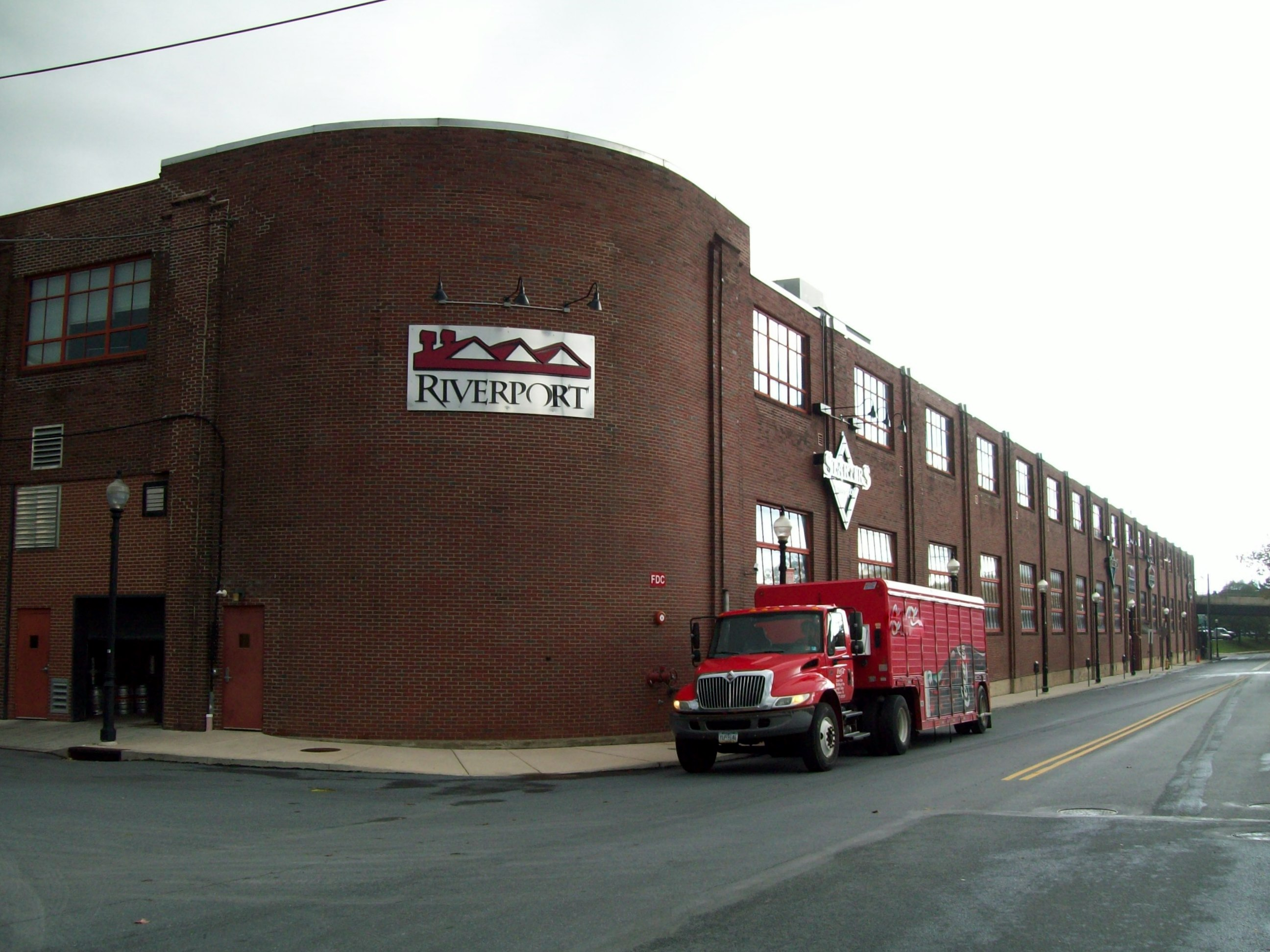 Bethlehem Steel Lehigh Plant Mill No. 2 Annex, Bethlehem, PA, October 2011